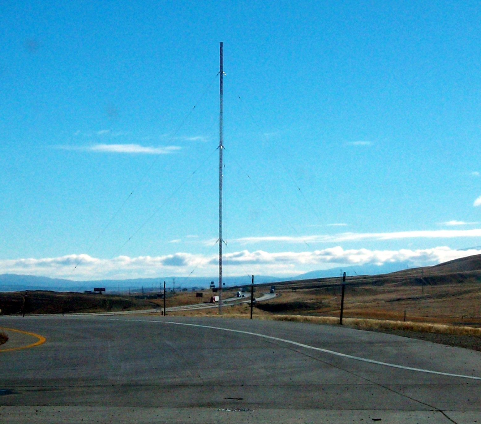 The radio tower for KRAL 1240 AM Rawlins, Wyoming.